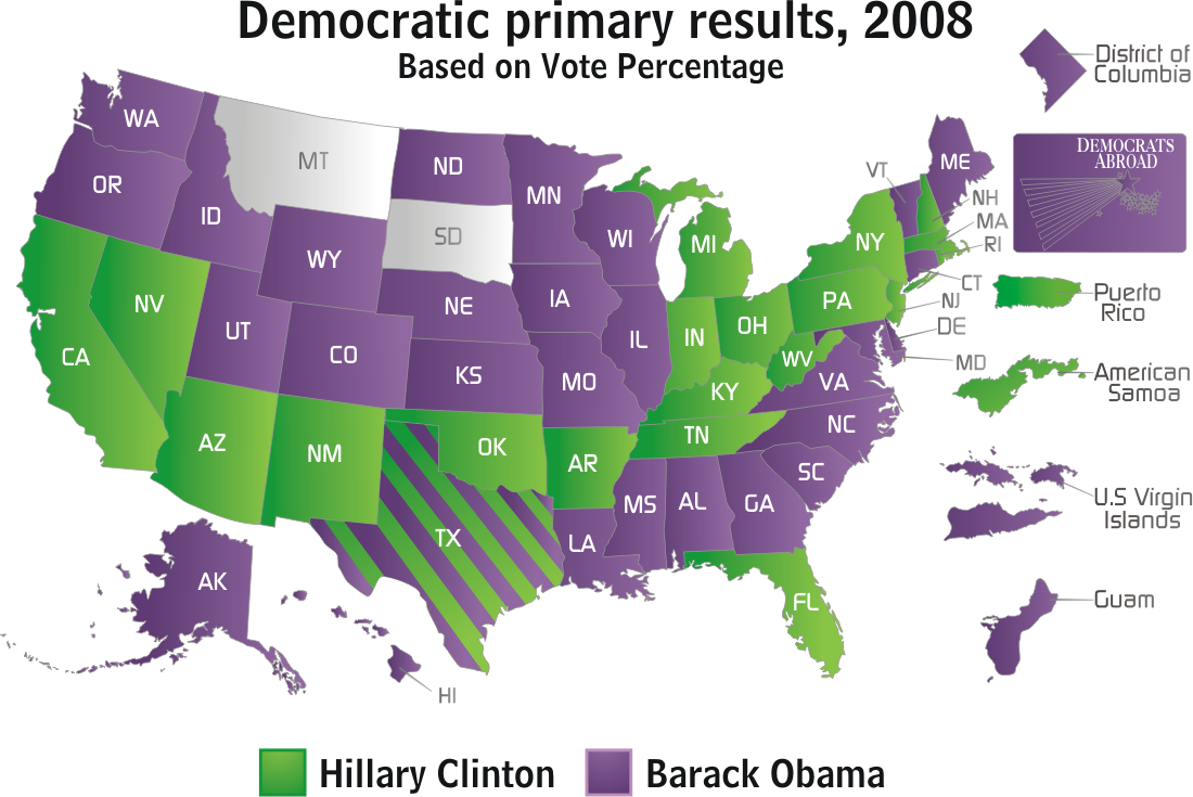 Results of the Democratic Presidential Primaries 2008, state level